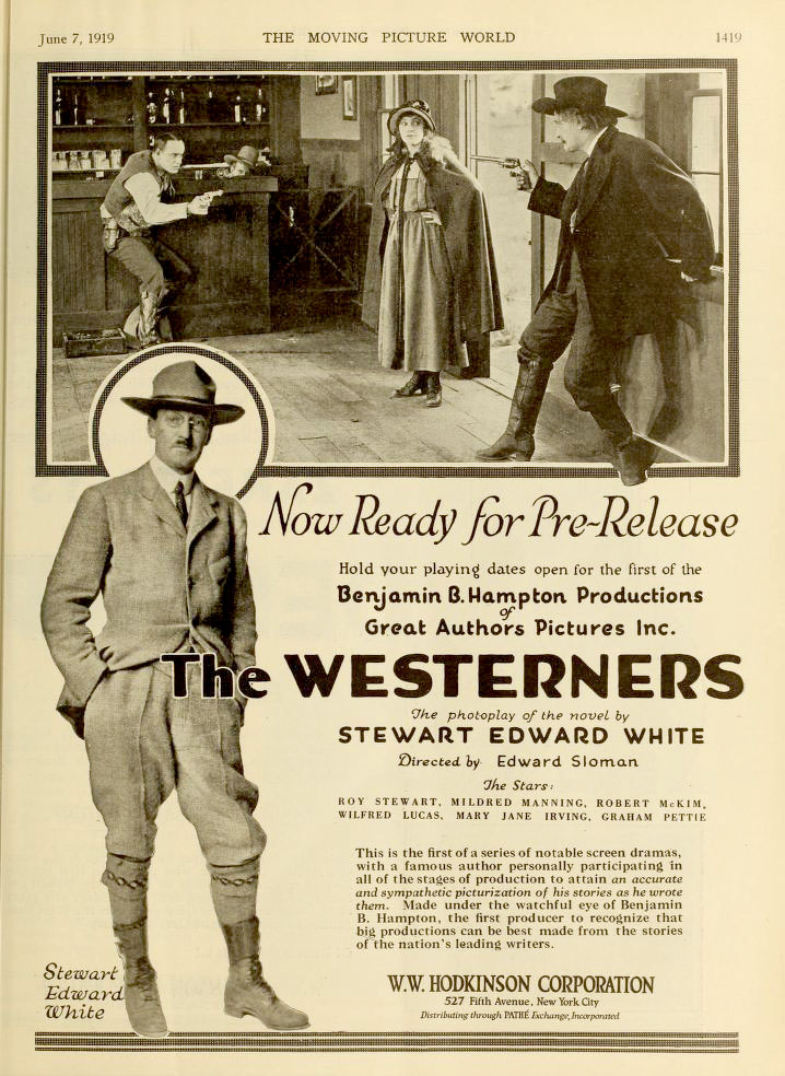 Advertising for the film based on The Westerners, a novel by Stewart Edward White, in The Moving Picture Word.